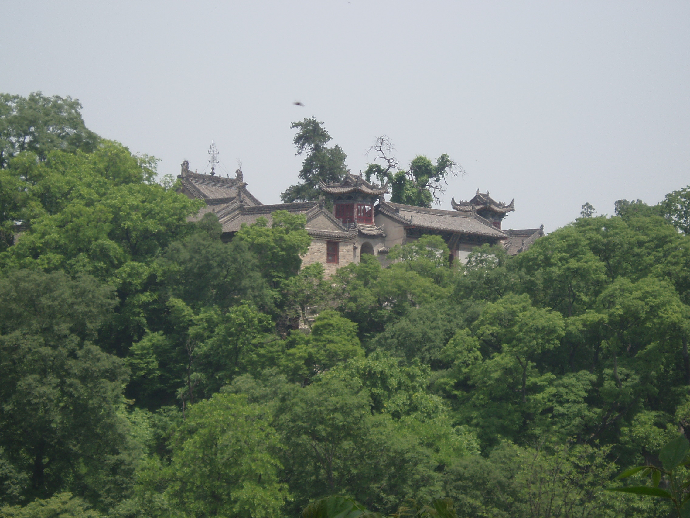 The Louguan temple from afar.